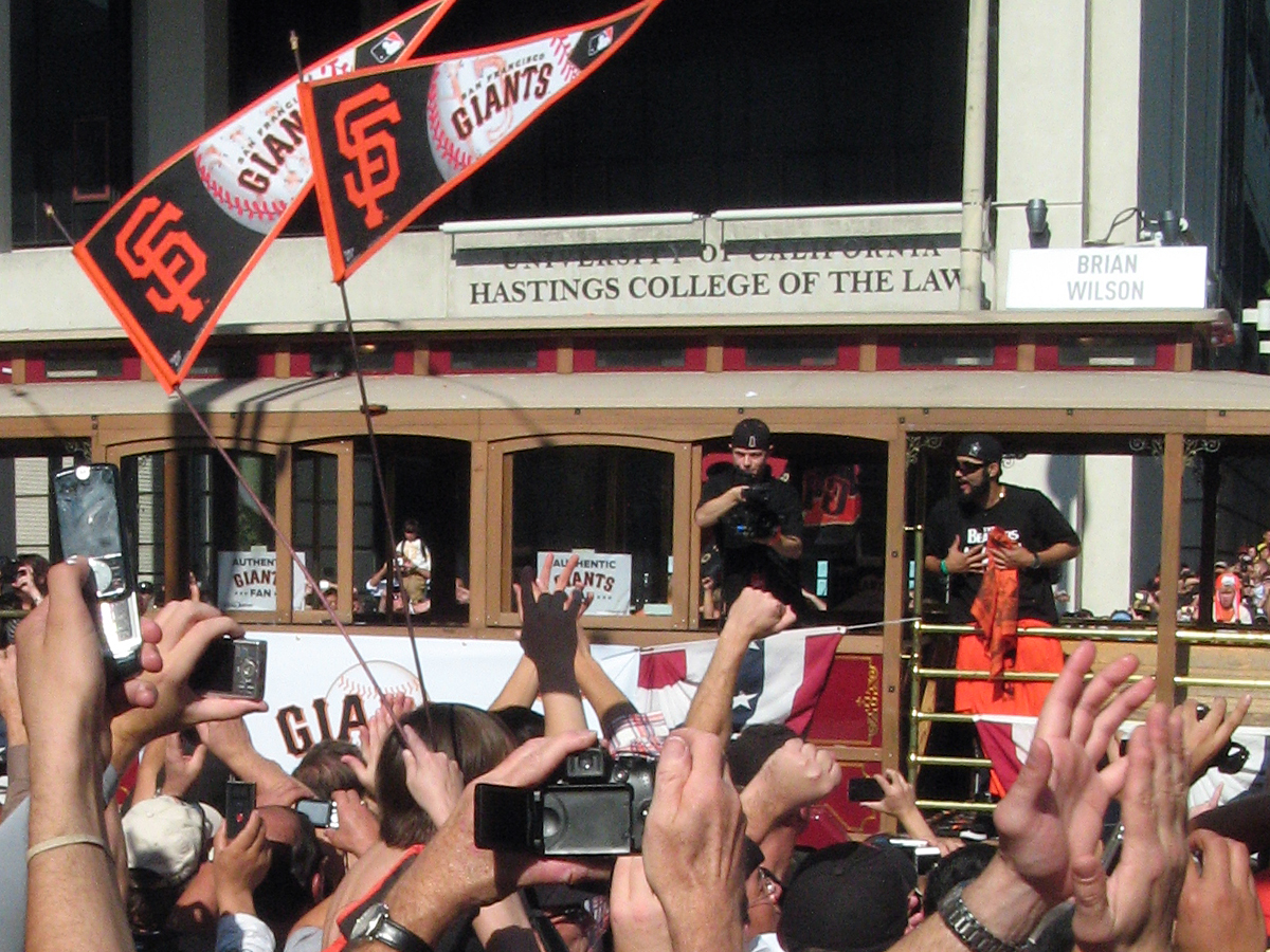 Sergio Romo, World Series champion